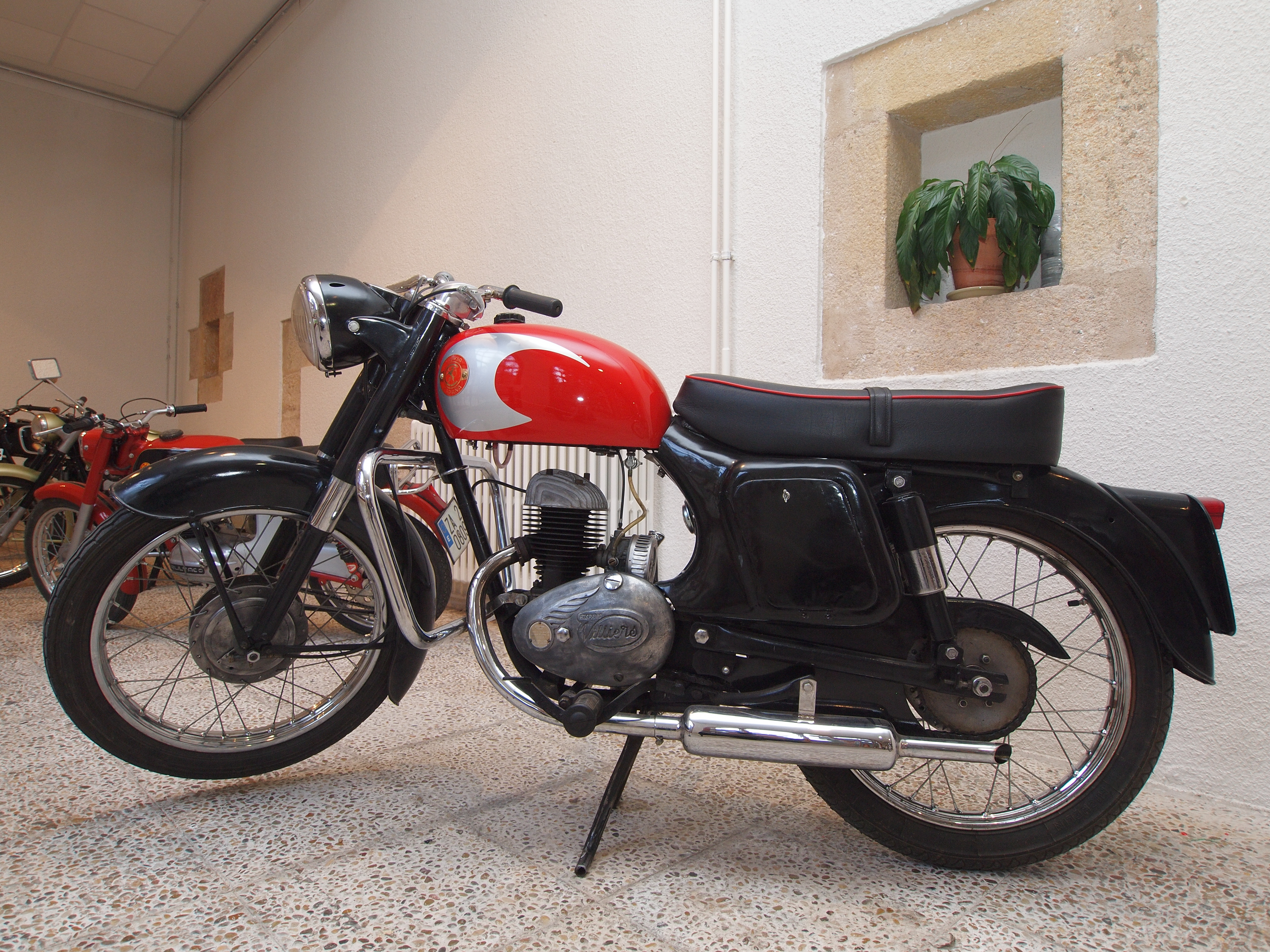 Cofersa motorcycle (1955); engine Hispano Villiers (Villiers built in Spain) 200cc two stroke. At exhibition in the II Show "Toda una Vida en Moto" of the Asociacion Motociclista Zamorana (Zamora, Spain, February 2012)